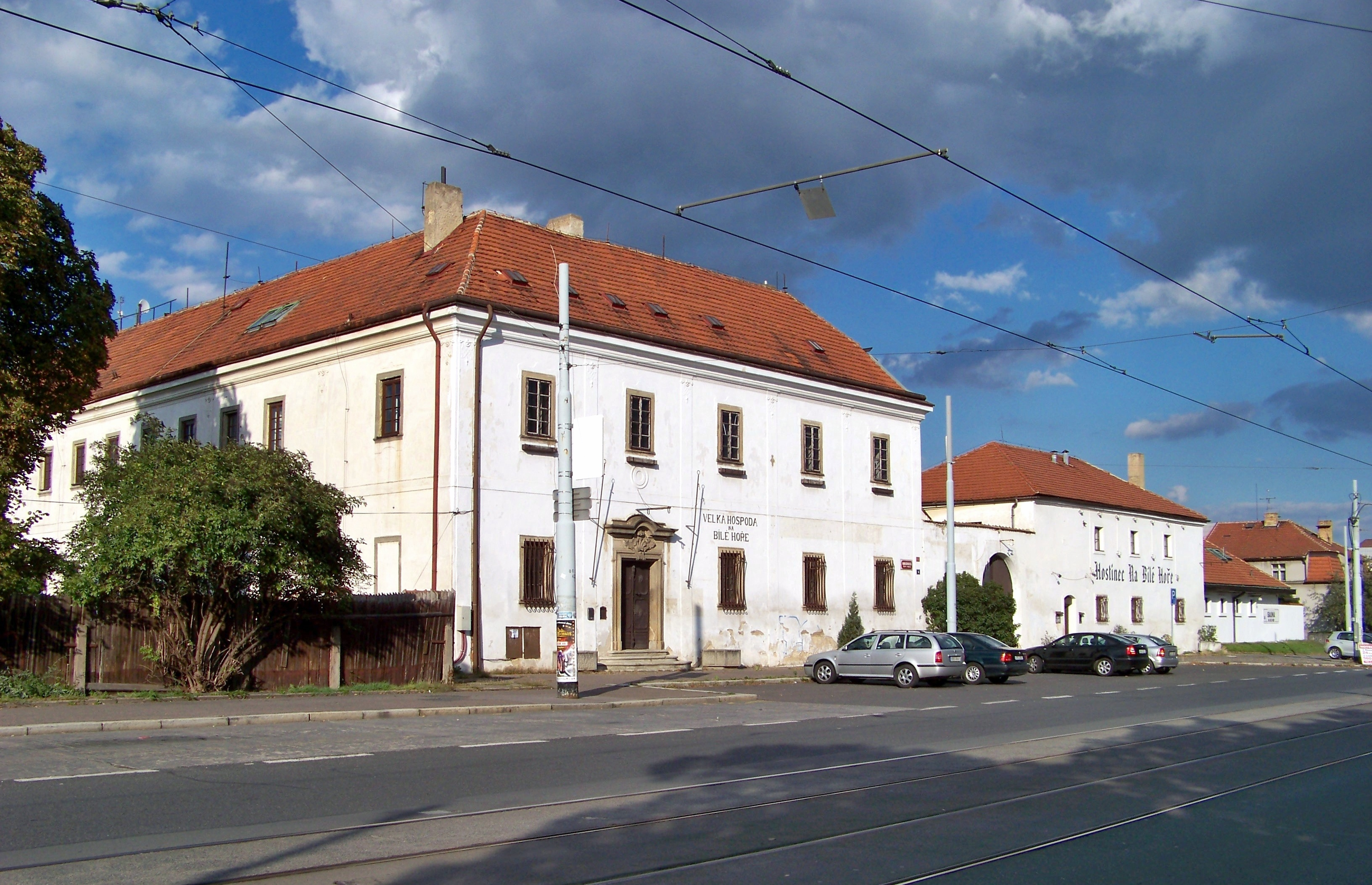 Prague-Řepy, the Czech Republic. Karlovarská street, Bílá Hora, a pub.